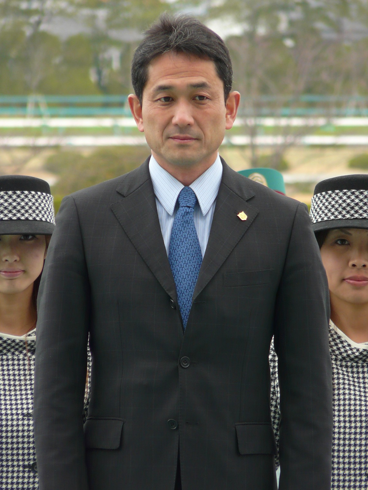 Kenichi-Fujioka20100228